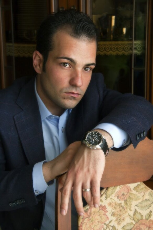 Vincenzo Pacilli